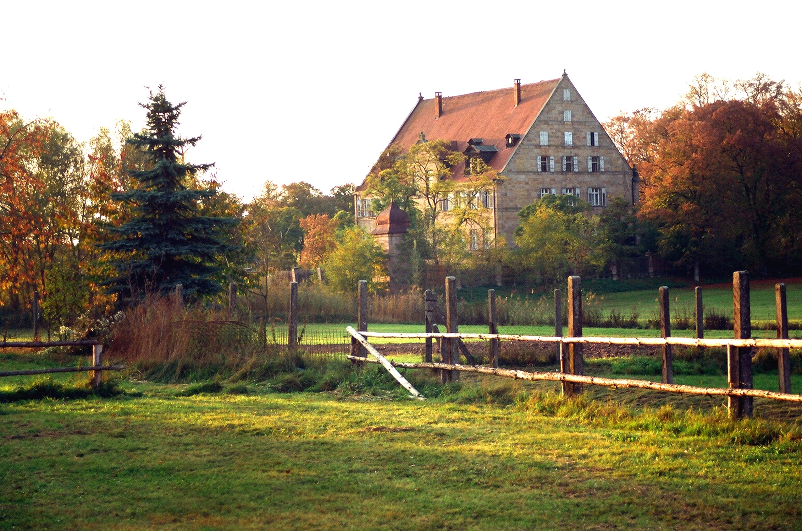 Dürrenmungenau (Abenberg), das Schloss